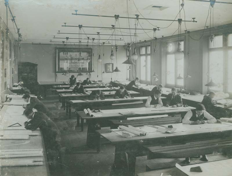 This is a photograph of the drawing Office of William Doxford & Sons Ltd, Pallion, Sunderland, c1928. Image reference: DS.DOX/6/8/2). This image is part of a small selection of photographs from our outstanding shipbuilding collections, which have just been added to UNESCO's UK Memory of the World register. (Copyright) We're happy for you to share these digital images within the spirit of The Commons. Please cite 'Tyne & Wear Archives & Museums' when reusing. Certain restrictions on high quality reproductions and commercial use of the original physical version apply though; if you're unsure please